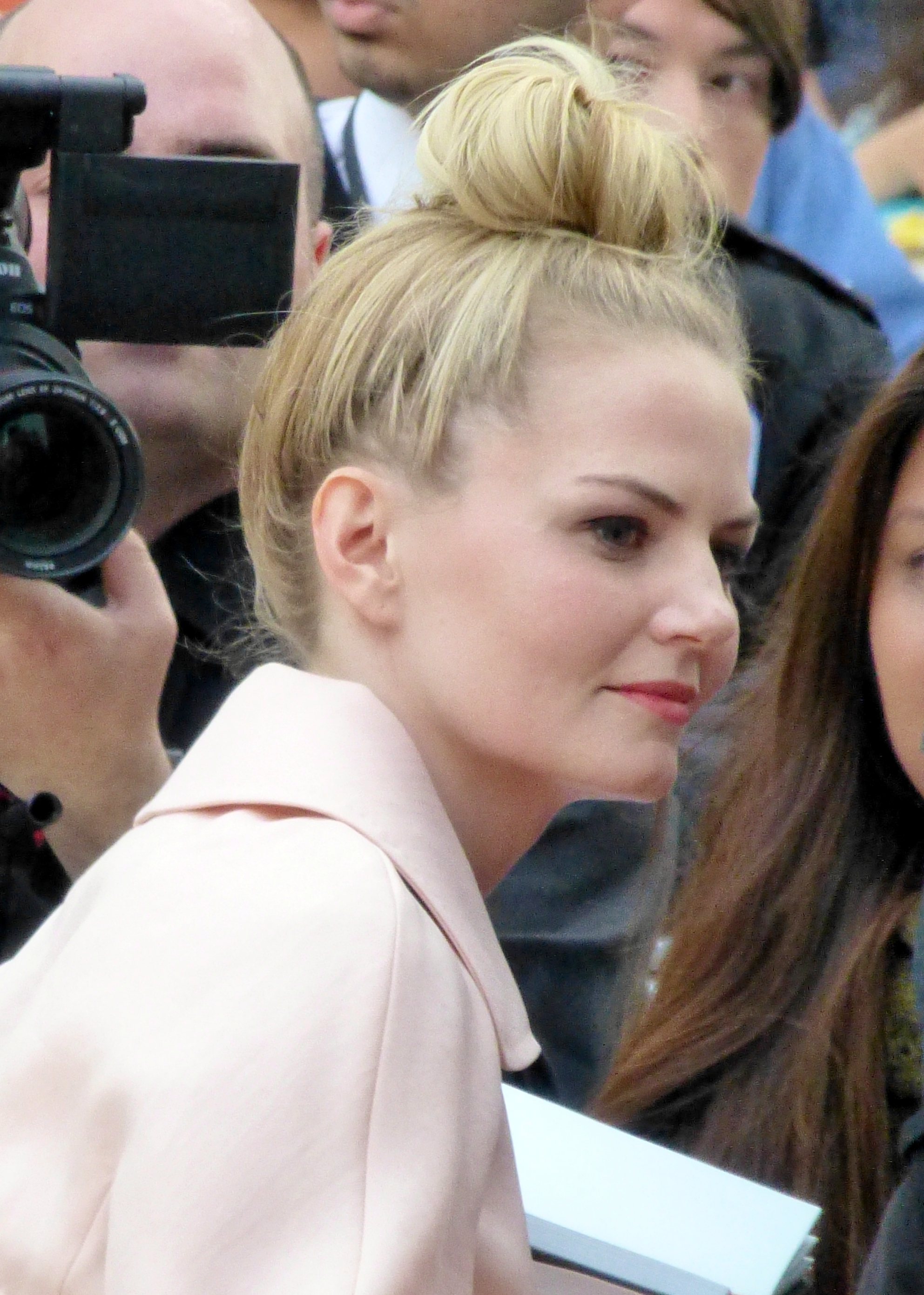 Jennifer Morrison at the premiere of August: Osage County, Toronto Film Festival 2013